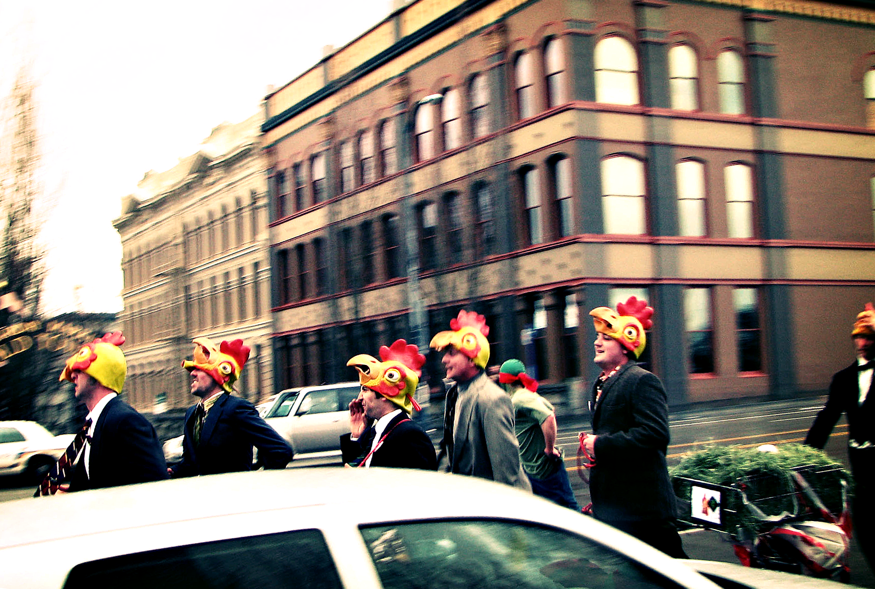 Six Word Story / 2008 Portland Urban Iditarod